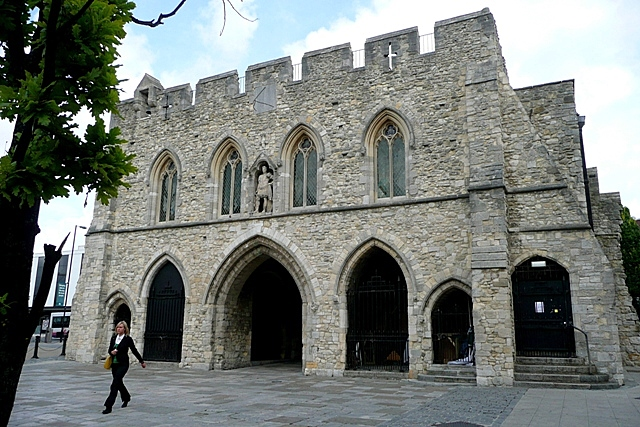 The Bargate This is the south side of the northern entrance to the medieval town of Hampton. The bell (top left) was rung every evening to indicate the closing of the gate. Upstairs is the Guild Hall, used at various times as a prison and courtroom.